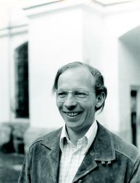 Albrecht Pfister, Burghausen 1976